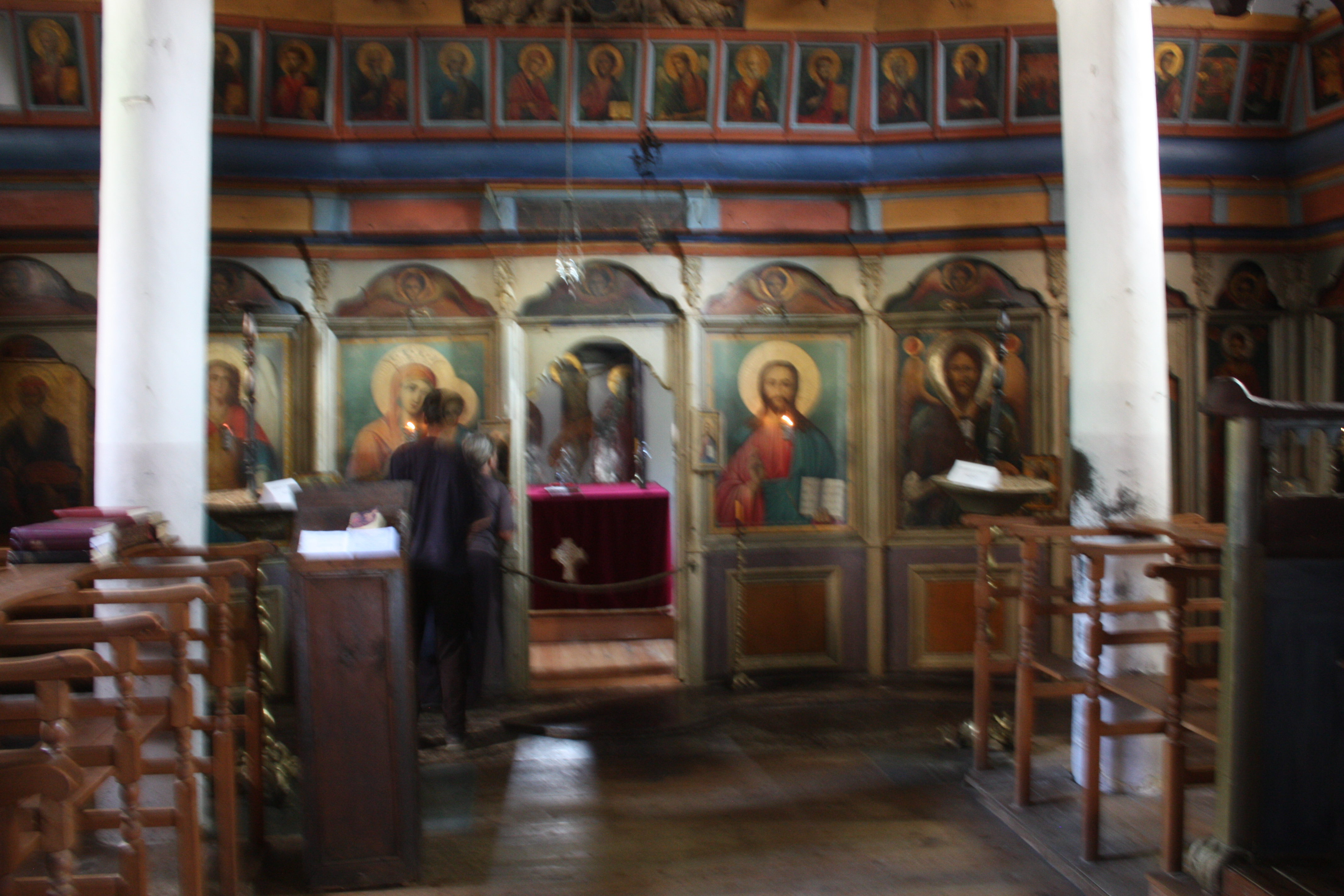 St. Michael the Archangel Church in Berovo, Macedonia